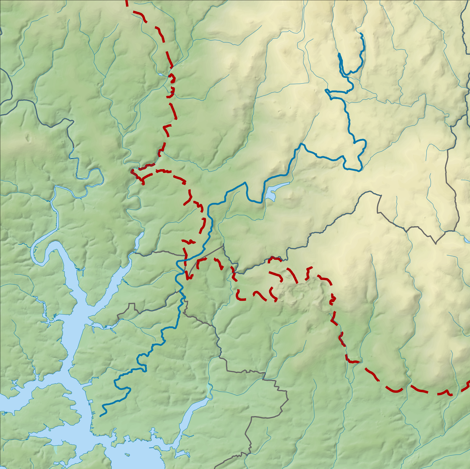 Map showing the route of Devonport Leat from its sources on Dartmoor to Devonport. Map projection is OSGB.